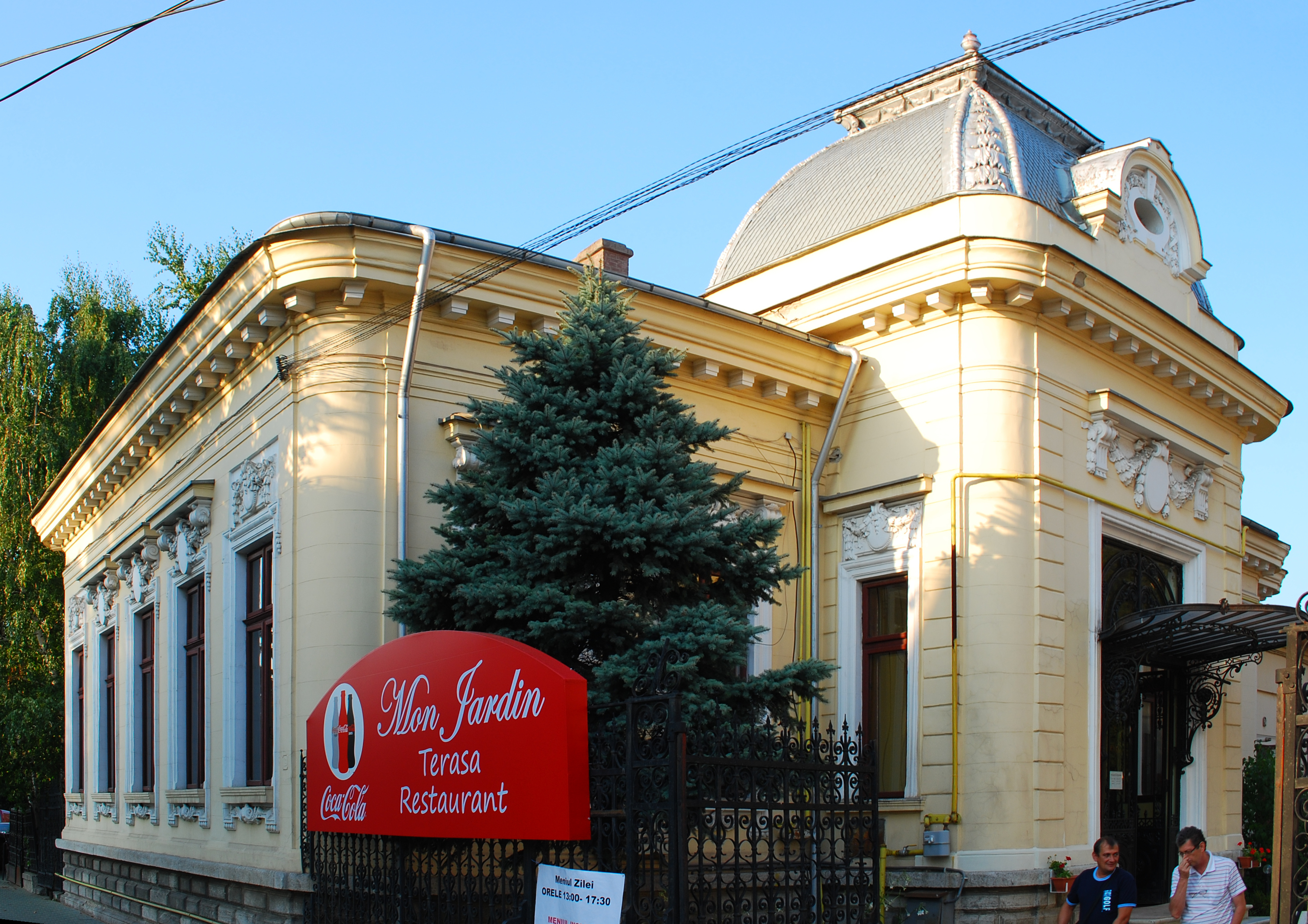 Toma Rucăreanu house, later known as Provian house in Ploieşti, RomaniaRomână: Casa Toma Rucăreanu, ulterior Casa Provian din Ploieşti, România